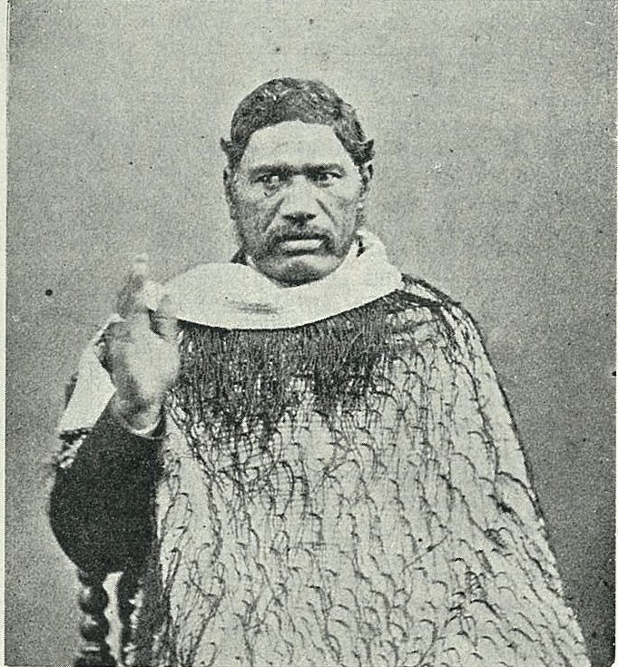 Te Ua Haumene, the founder of Pai Marire